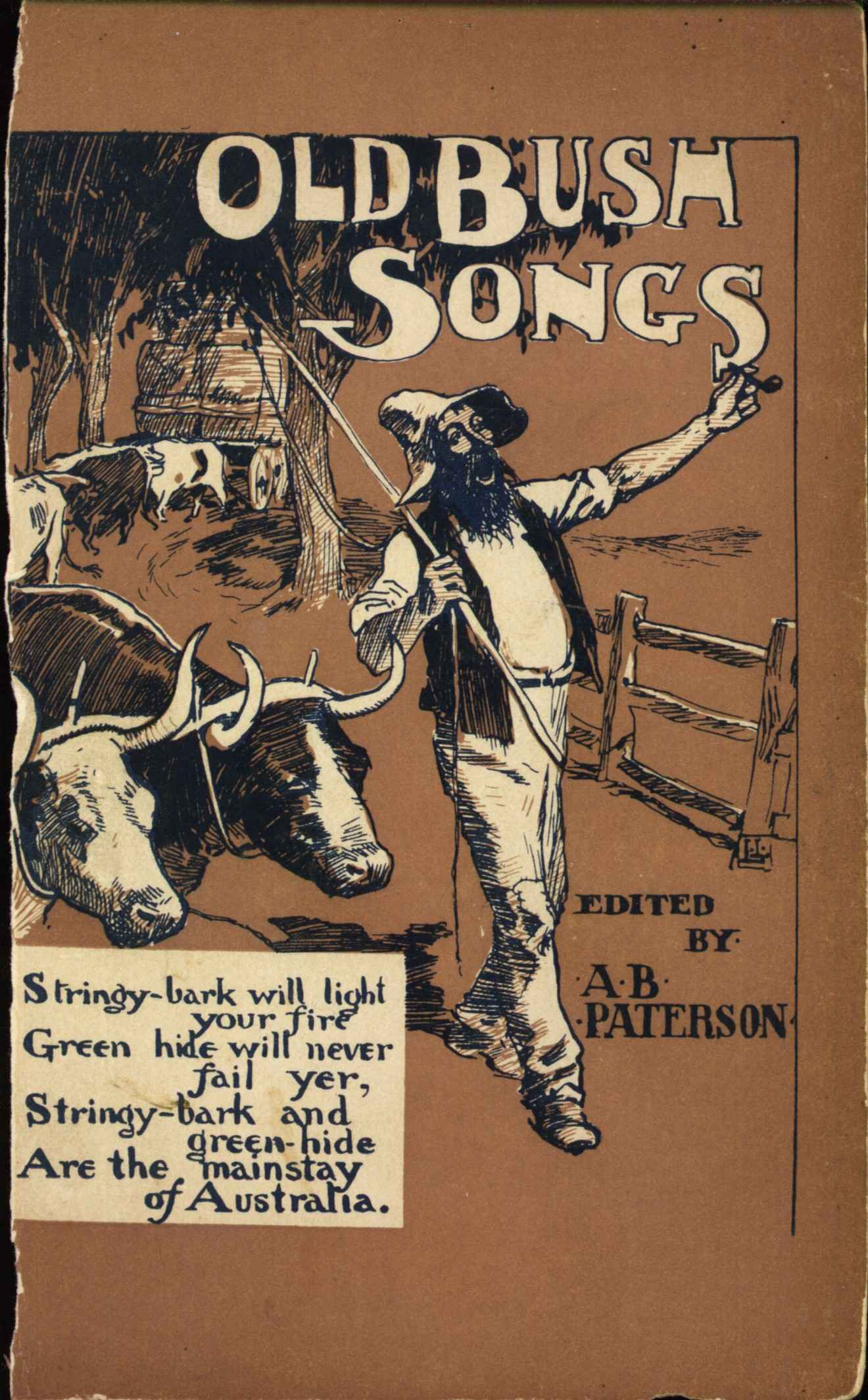 Cover of THE OLD BUSH SONGS: Composed and sung in the Bushranging, Digging, and Overlanding Days, edited by A. B. Paterson, Sydney, Australia: Angus and Robertson, 1906. Printed by Websdale, Shoosmith and Co., Printers, Sydney, Australia. Note: this is a 1906 edition, but this collection was first published in 1905.